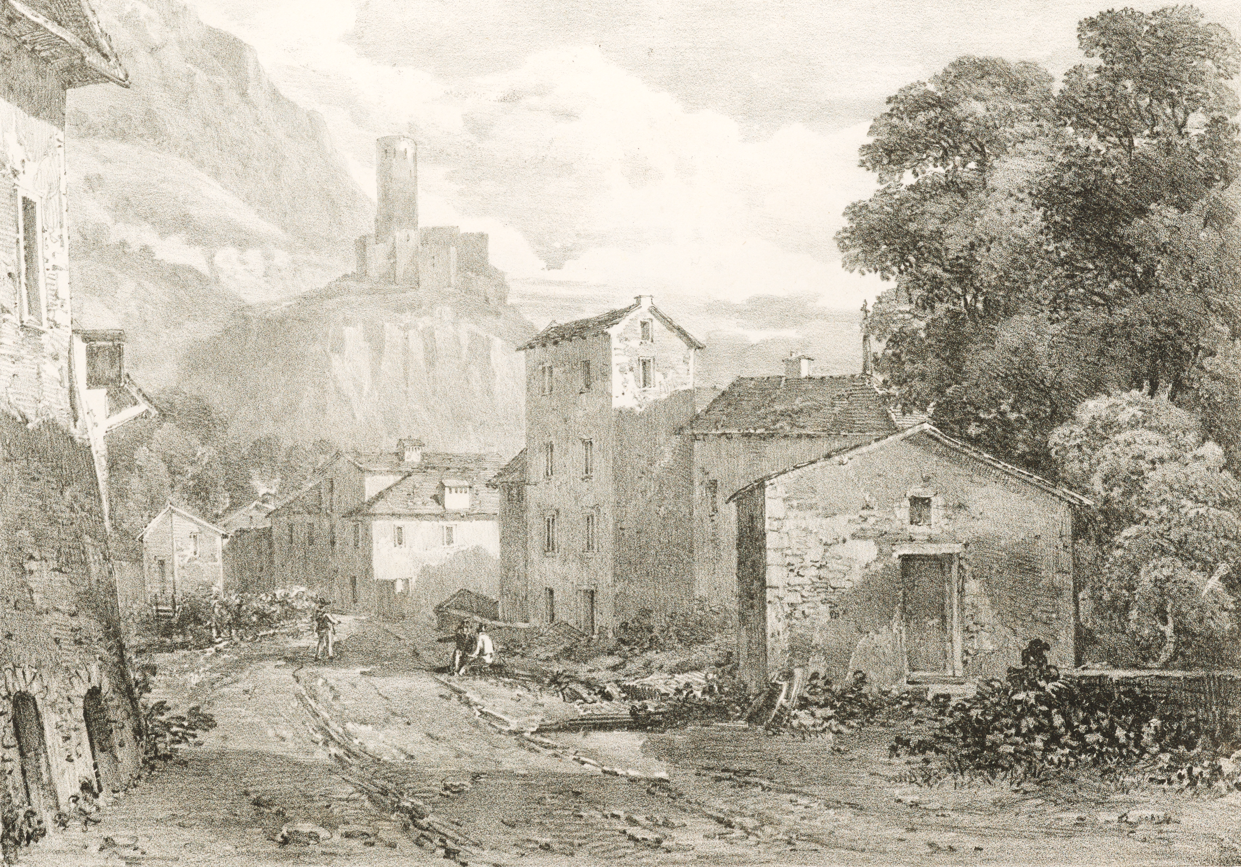 Martigny; Views to illustrate the route of the Simplon; [recto en bas à gauche]: Drawn from Nature by Major Cockburn: [en bas à droite]: On Stone by I.D. Harding. [en bas au milieu]: Martigny. / London. Published by Rodwell & Martin New Bond St. July 1. 1821. / C. Hullmandel's Lithogr.[recto en bas à droite au crayon]: 7[recto en bas à droite timbre à sec]: B; Martigny, vue partielle. Château de la Bâtiaz